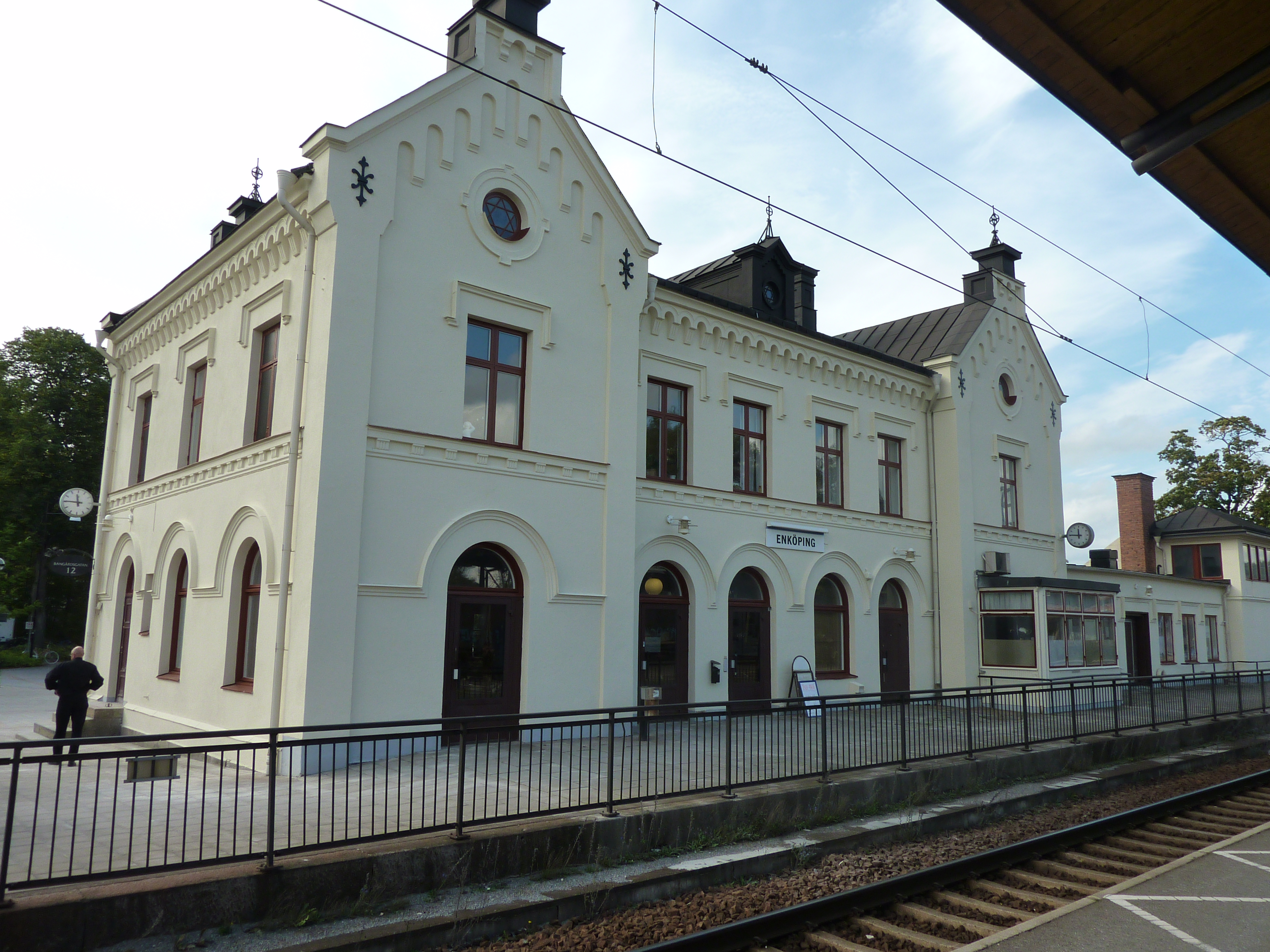 Railway station Enköping in Sweden